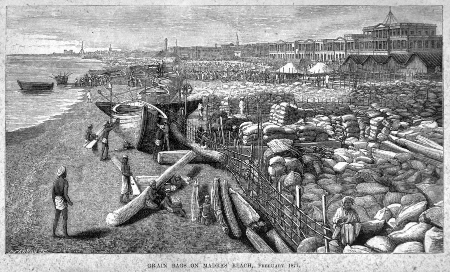 Grain on the Madras beach